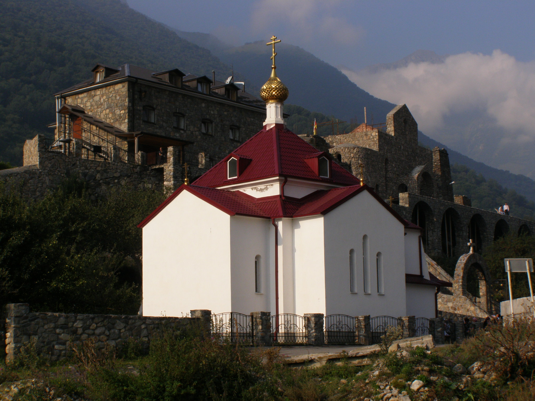 Orthodox church by the Alan Monastery of the Dormition of the Theotokos. Khidikus. North Ossetia. Ирон: Хидыхъусы аргъуан.